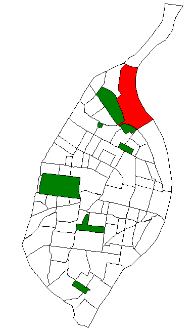 Map of St. Louis Neighborhood #79 (North Riverfront)